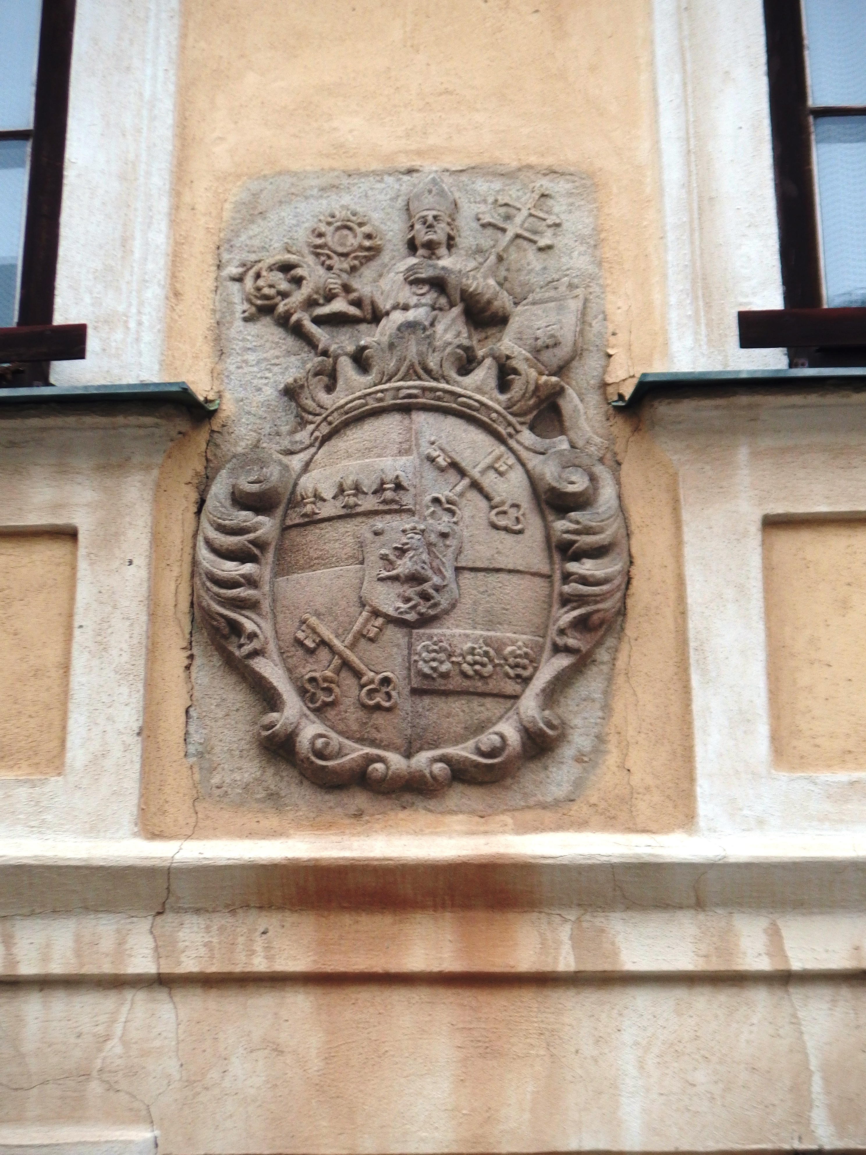 Jihlava, Czech Republic.